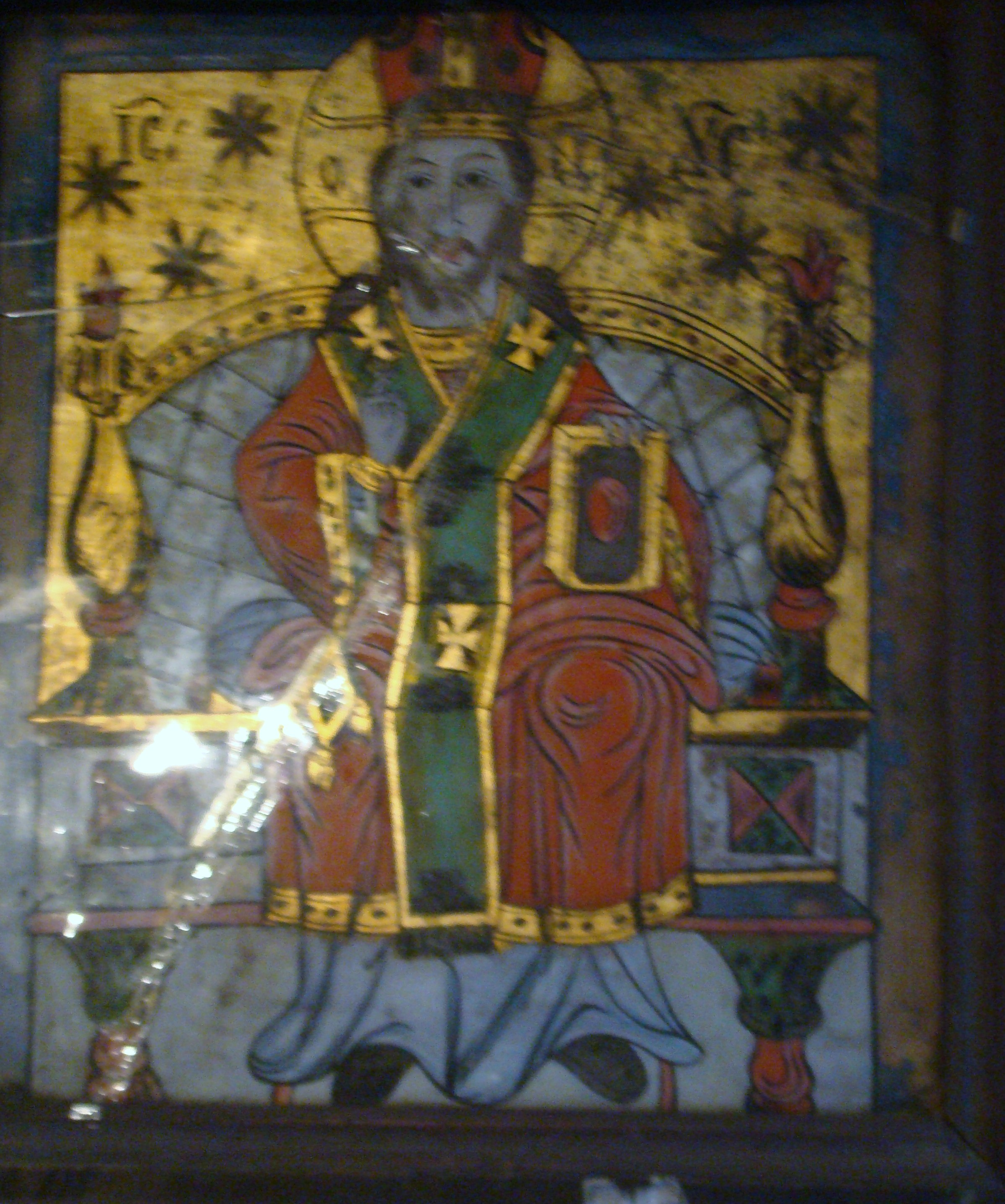 The wooden church in Săsăuș, Sibiu county, Romania